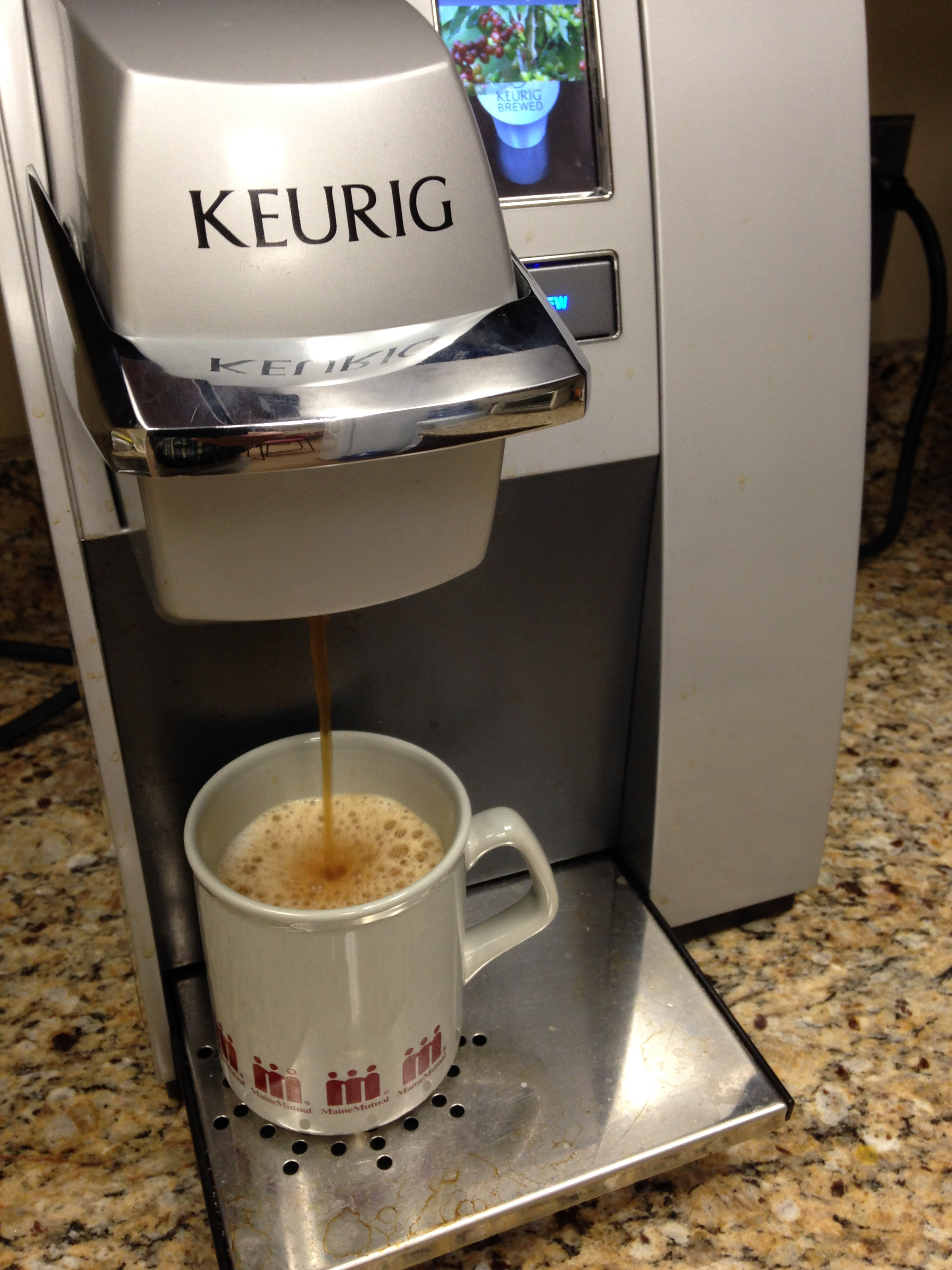 This is a popular single-serving coffee maker by the Keurig brand.